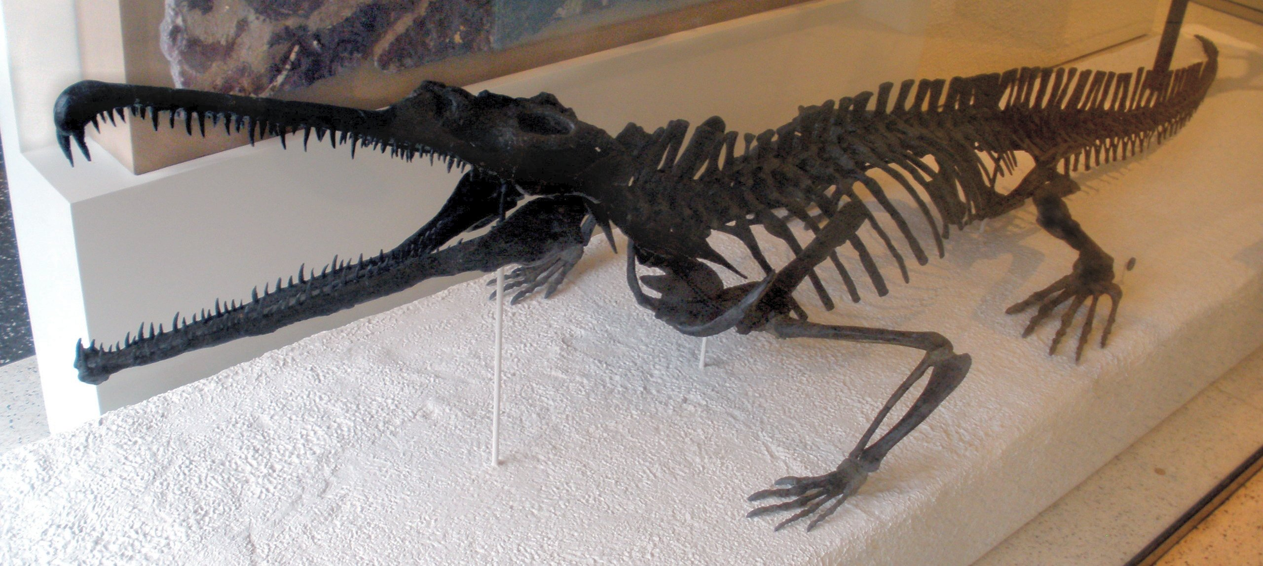 Crop of file in filename